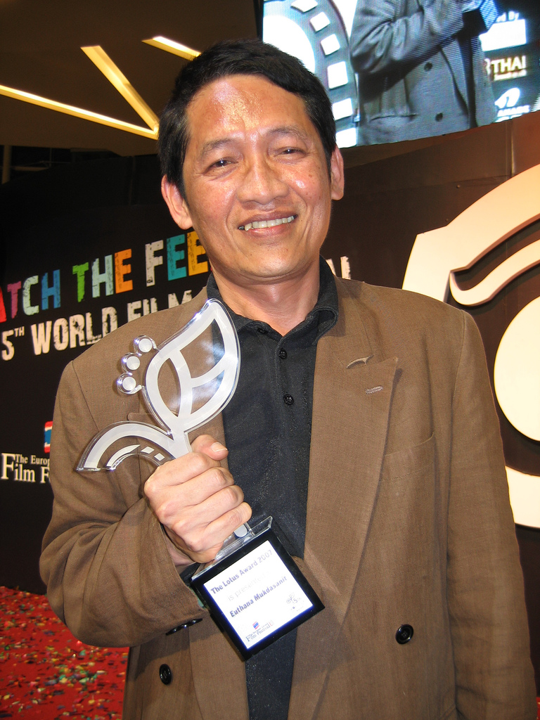 Thai film director and screenwriter Euthana Mukdasanit received the Lotus Award for lifetime achievement at the World Film Festival of Bangkok at Esplanade Cineplex in Bangkok.